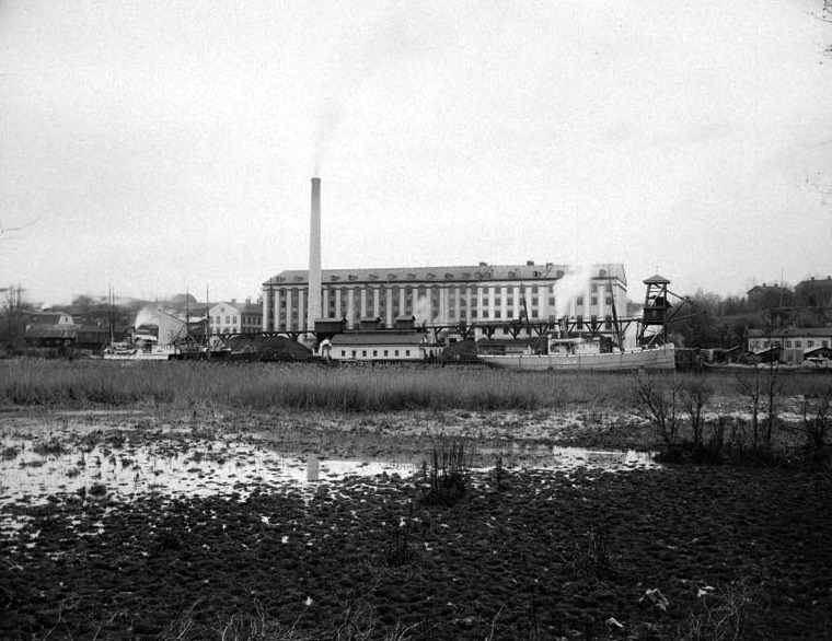 Tanto sugar works in Stockholm around 1890 to 1920